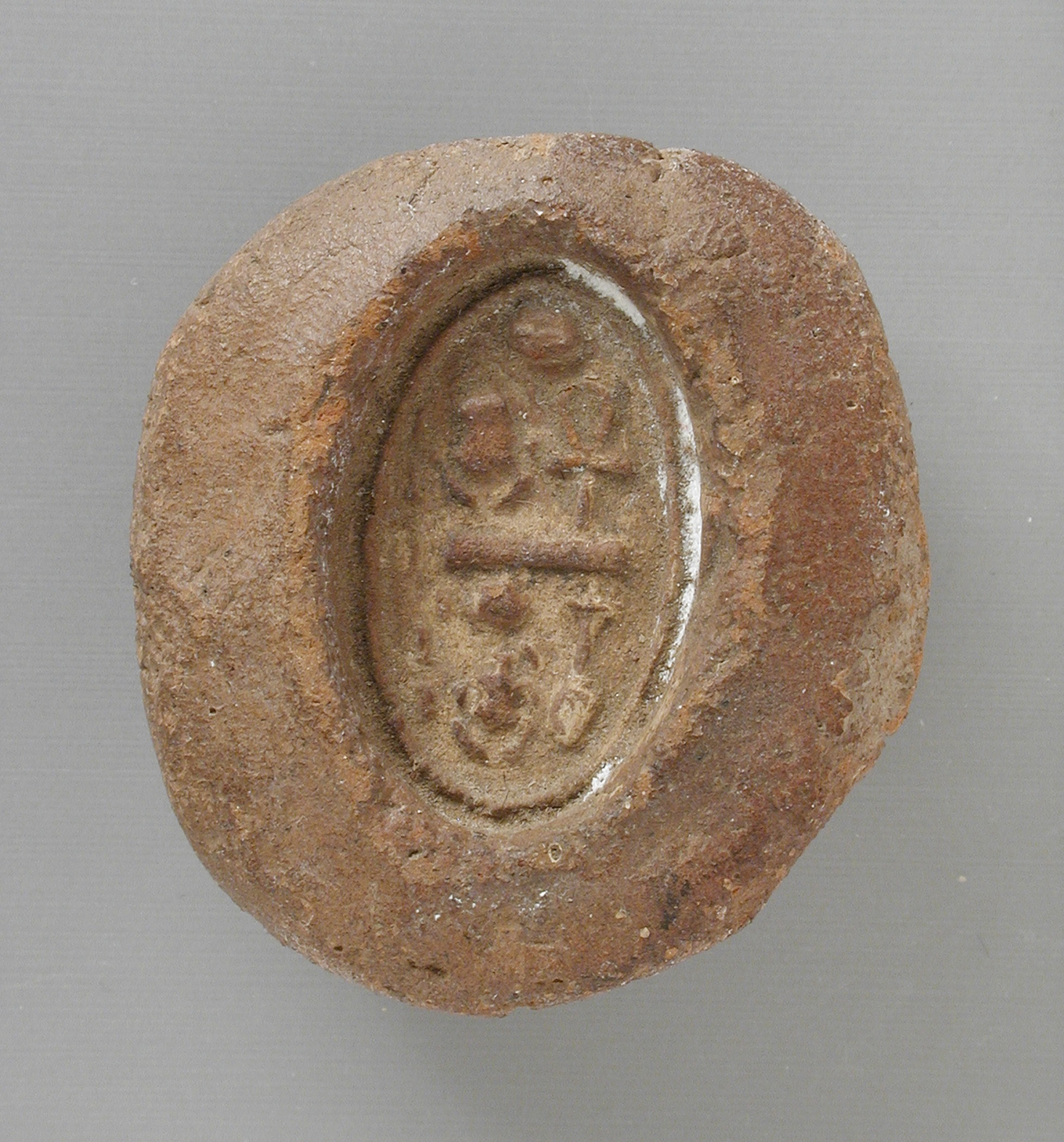 Tools and Equipment; molds Terracotta Overall: 1 5/16 x 1 1/4 in. (3.33 x 3.18 cm); Imprint: 7/8 x 7/16 in. (2.22 x 1.11 cm) Gift of Jerome F. Snyder (M.80.202.317) Egyptian Art